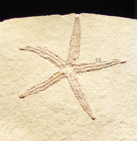 fossil of Terminaster cancriformis, Jurassic